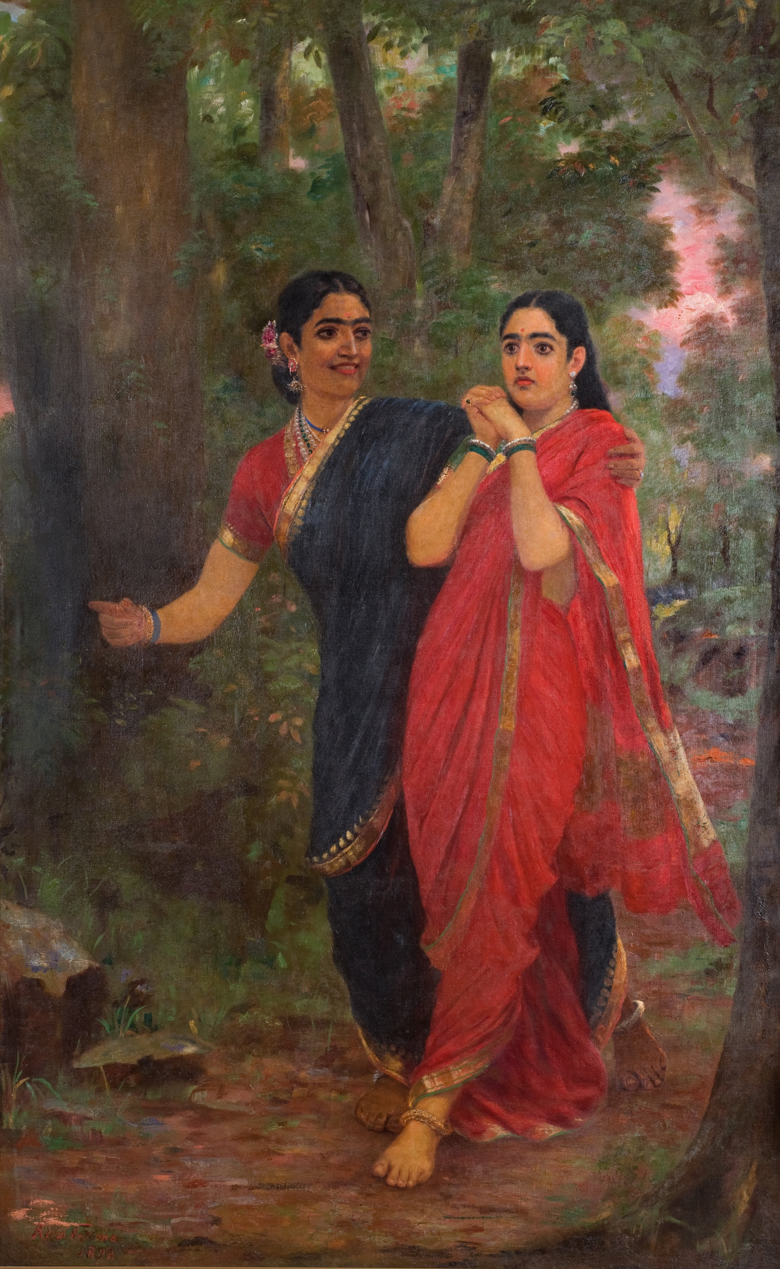 Draupadi taken to forest by Simhika, who plans to kill her.